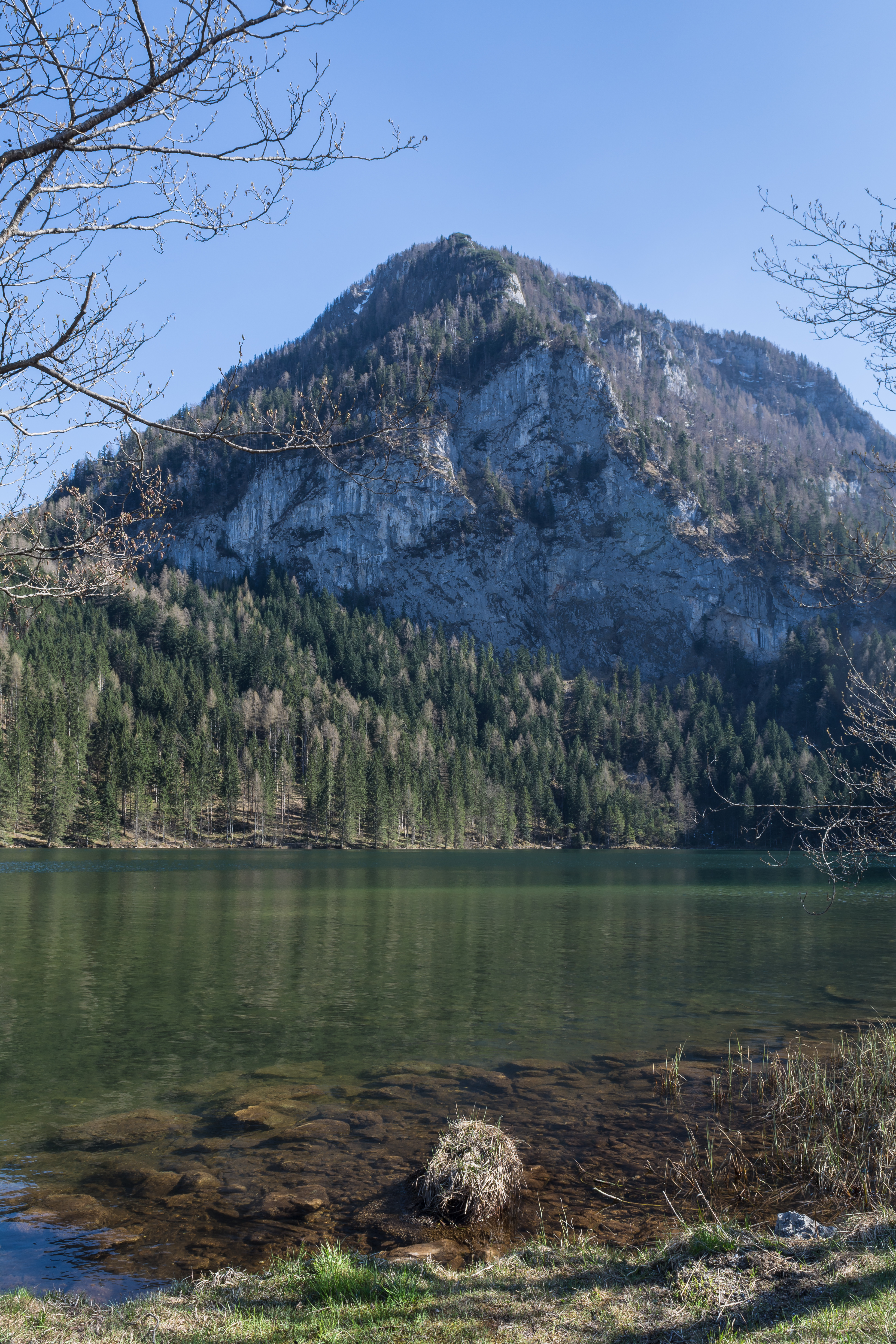 Lake Gleink is located at the north border of the mountain ridge of Totes Gebirge in Spital am Pyhrn (Upper Austria) at 806 m a.s.l.. It is approximately 600 m long, has 400 m in width an an average depth of 25 m. At one point there is a funnel-shaped run to a depth of approximately 125 m. The lake was probably scraped out by a small glacier. The remaining moraine is the damming of the lake in the north. The Seespitz (lake pike, 1574 m) is the natural barrage of the lake to the south. This media shows the nature reserve in Upper Austria with the ID n017.